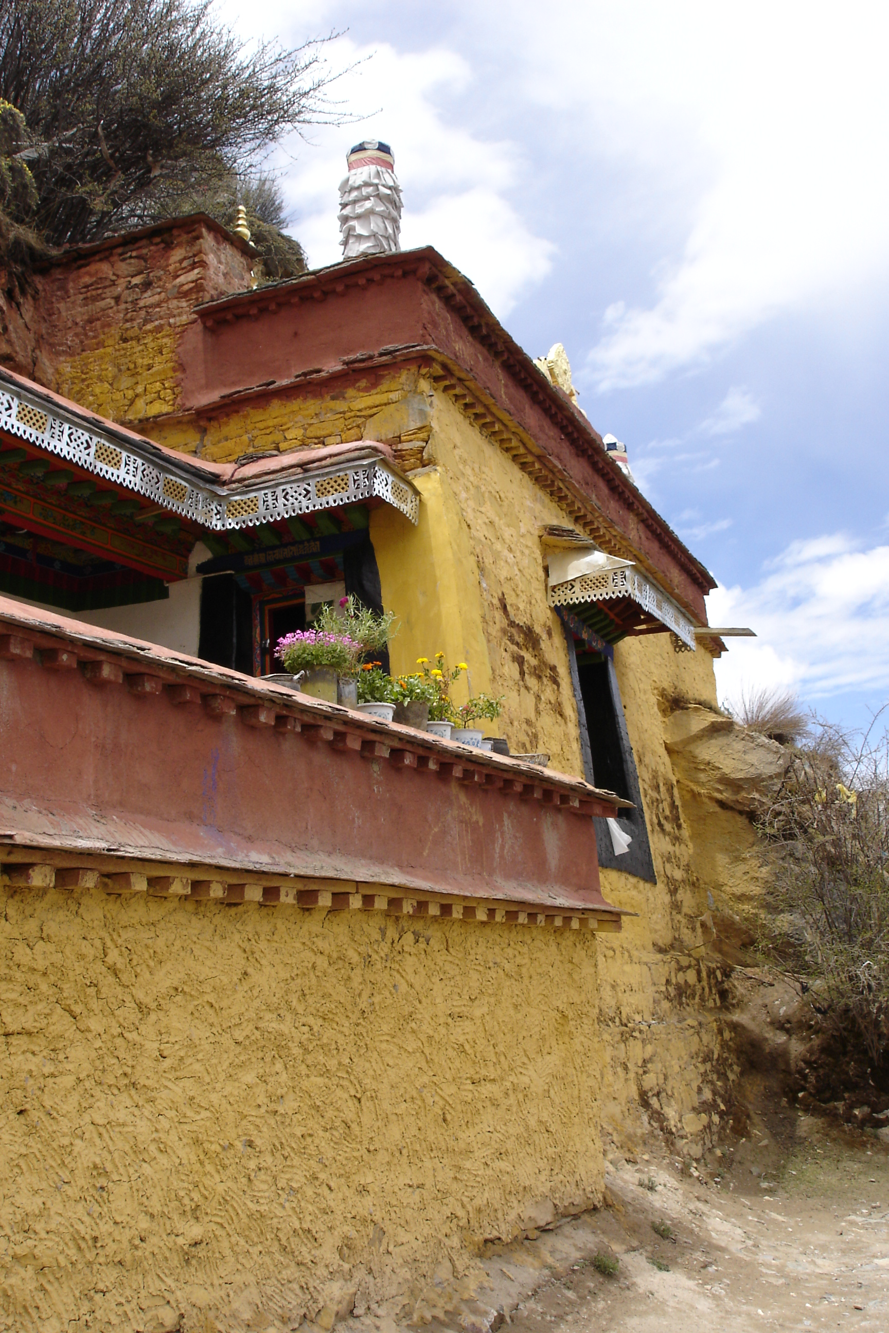 Tsongkhapa's hermitage (Tibet Autonomous Region, People's Republic of China).